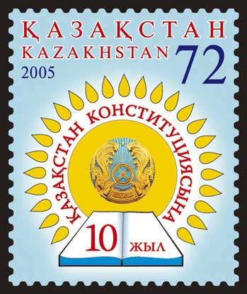 Stamp of Kazakhstan